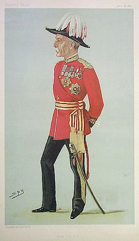 Caricature of Geneneral Sir Frederick Charles Arthur Stephenson G.C.B. (1821-1911). Caption reads: "dear old Ben".